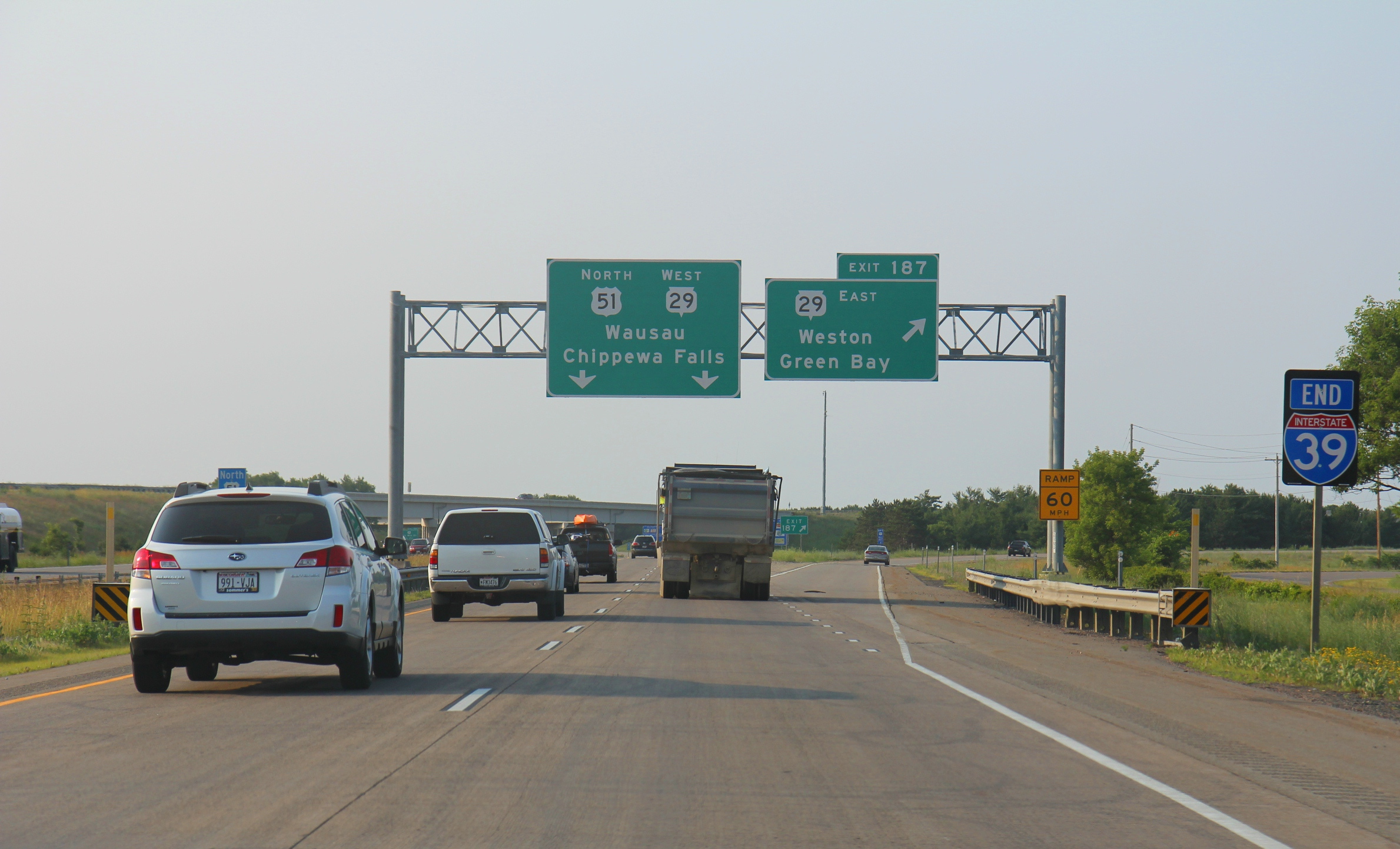 The northern for Interstate 39 in Marathon County, Wisconsin.